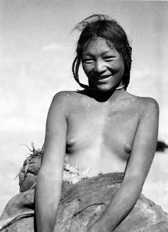 Lhasa, Ngoloklager, junges Mädchen Information added by Wikimedia users.